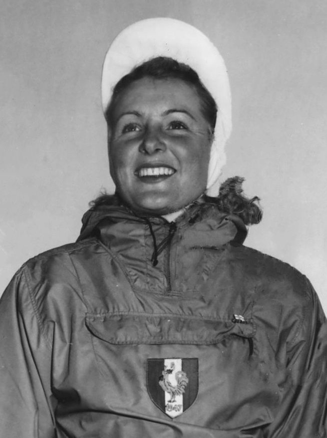 1948 Press Photo Georgette Thioliere-Miller of France in downhill Olympic ski